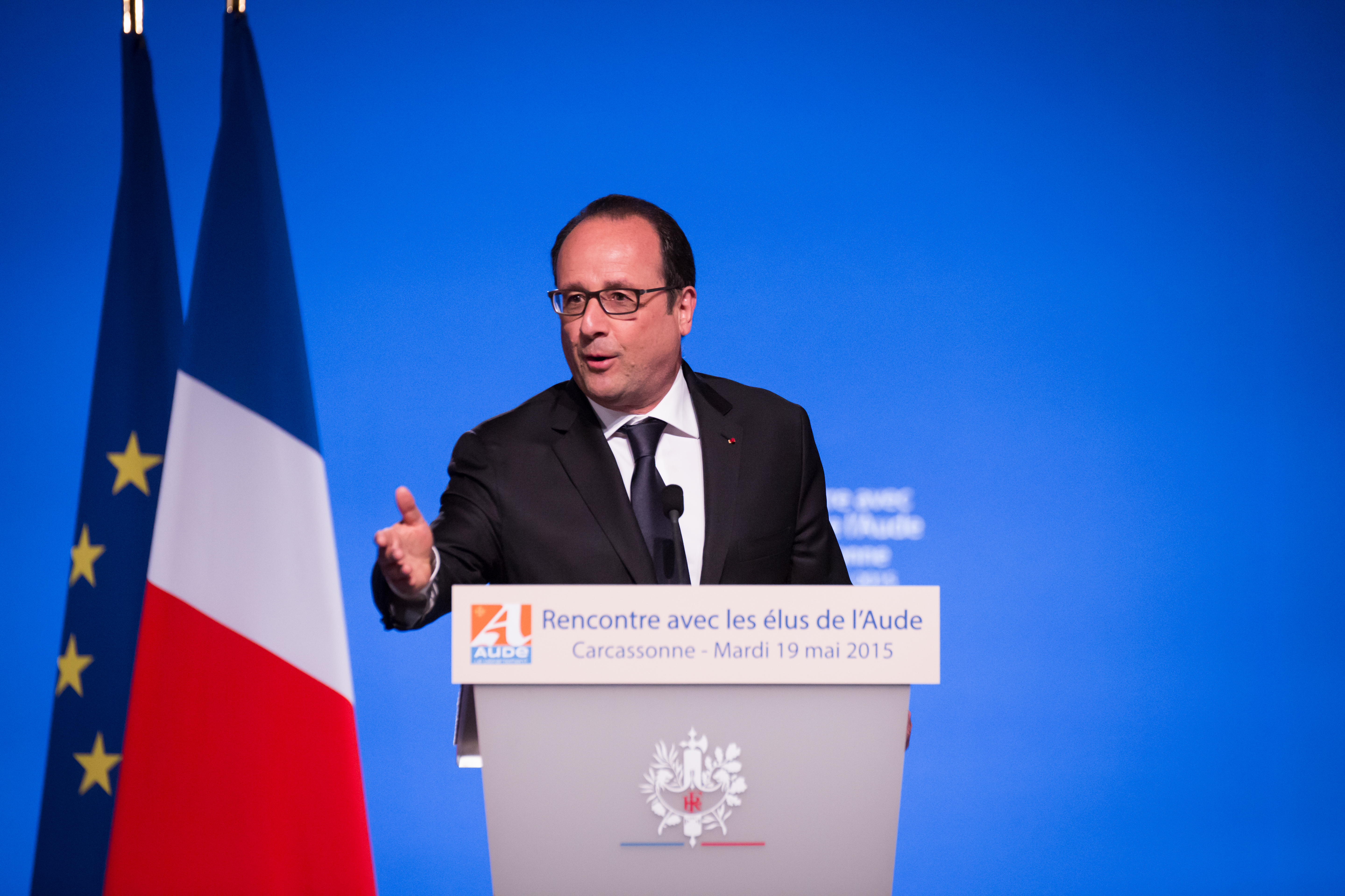 The President of the French Republic François Hollande, May 19, 2015 in Carcassonne. Aude - Languedoc Roussillon